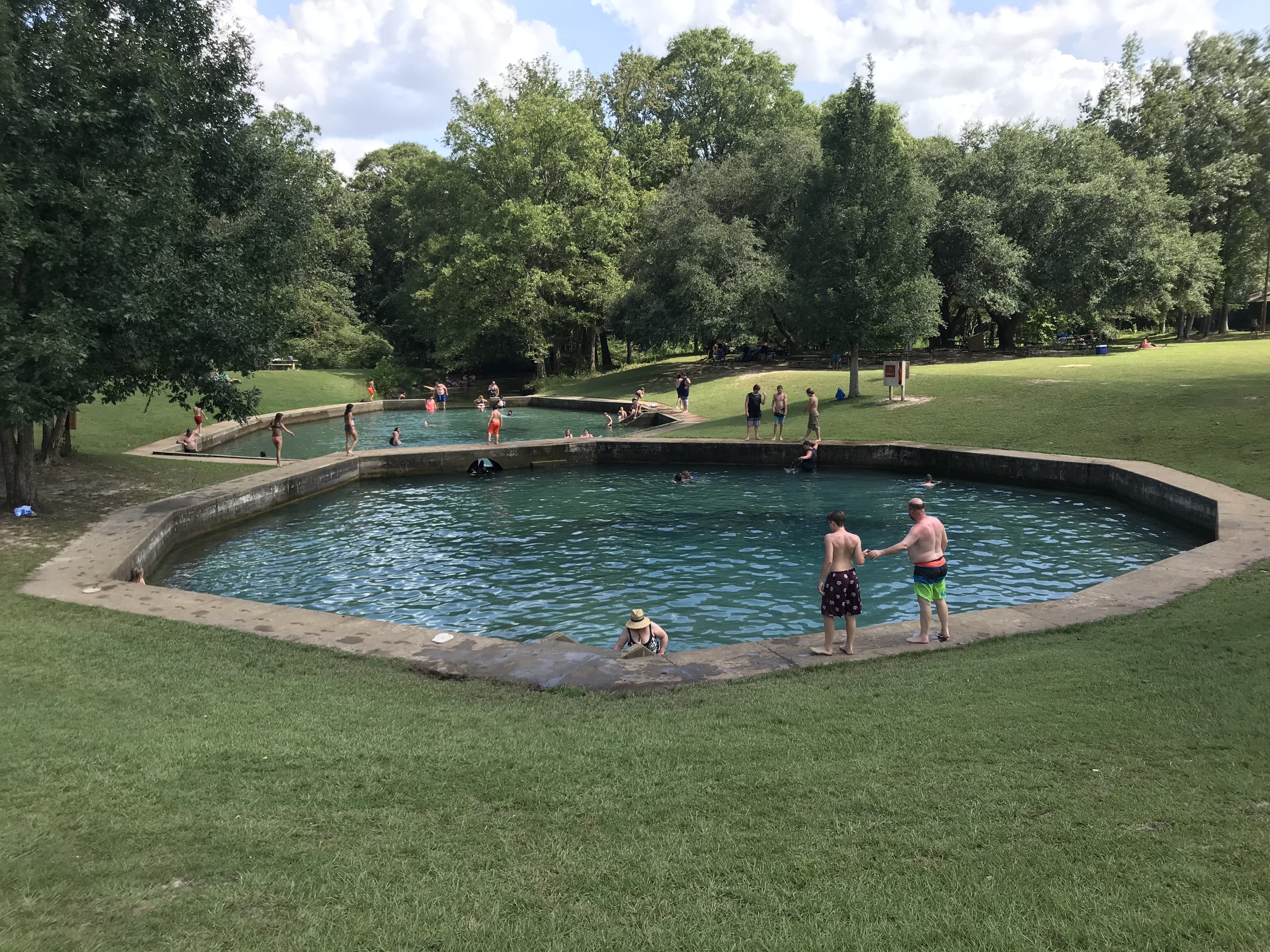 Overview of the two concrete-ringed pools at Blue Springs State Park, Barbour County, Alabama